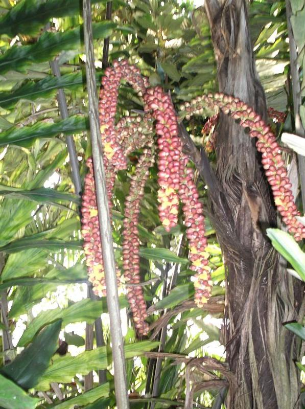 Arenga undulatifolia - syn: Arenga ambong fruits in Kew Gardens.